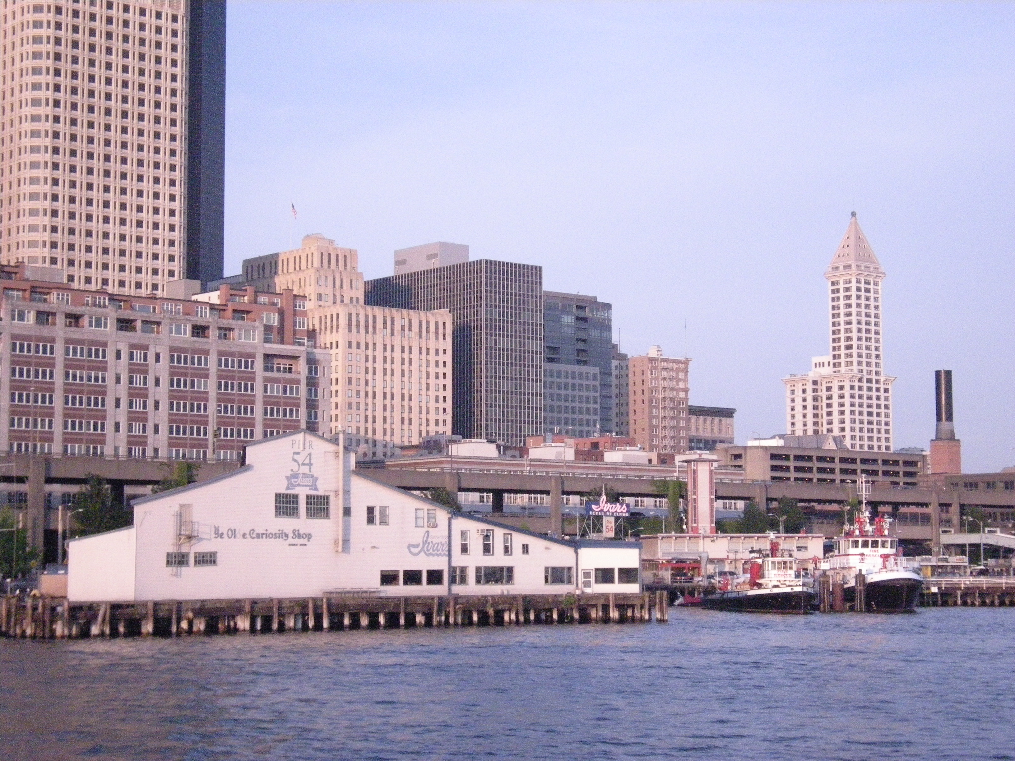 Pier 54, Seattle, Washington, photographed from the water. Also visible: fireboats at Fire Station No. 5; Alaskan Way Viaduct; various downtown buildings, including (at left) the Henry M. Jackson Federal Building, the Exchange Building, the Norton Building, and at right the Smith Tower and the stack of the old steam plant.